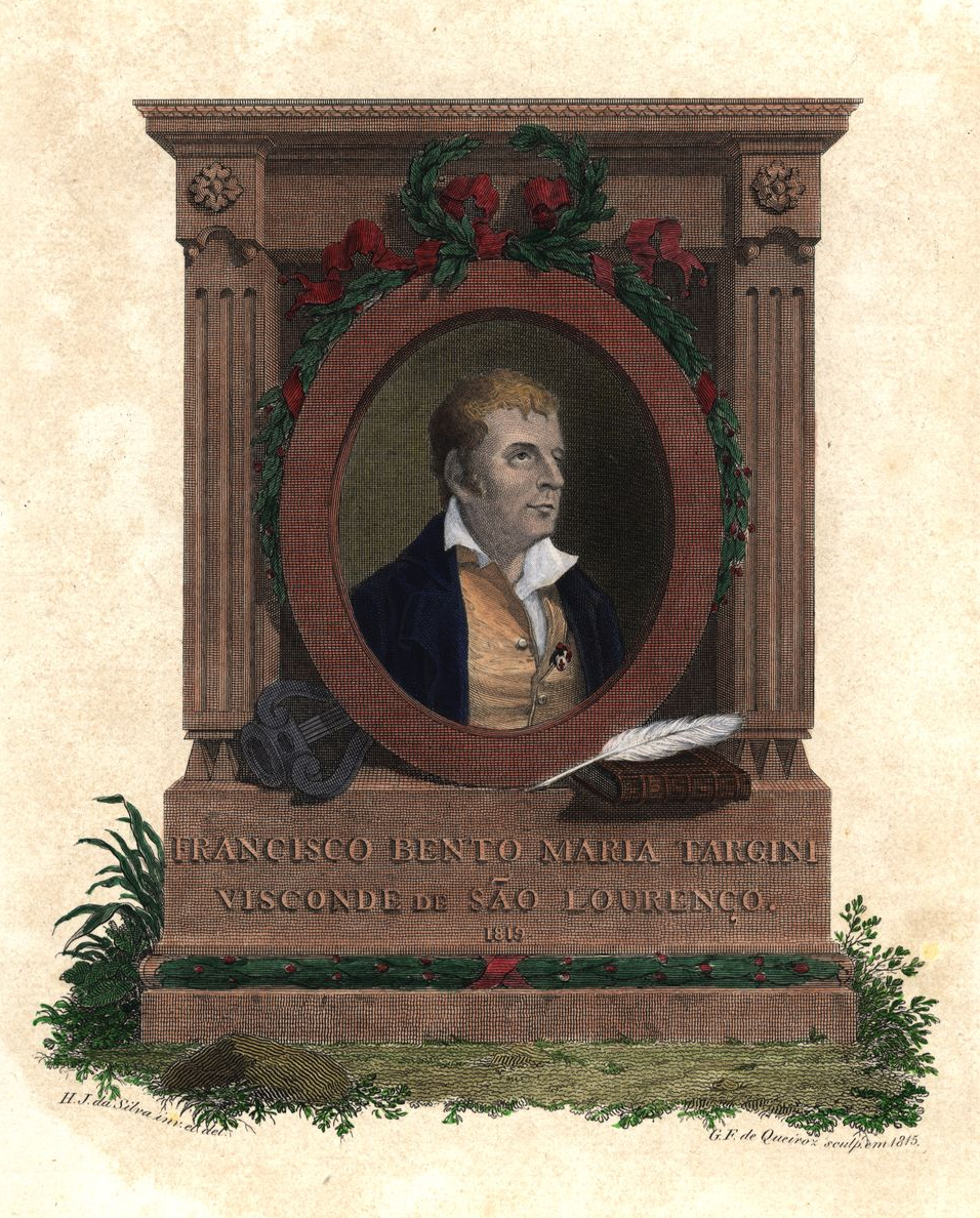 Portrait engraving of Francisco Bento Maria Targini, 1st Viscount of São Lourenço (1756-1827)